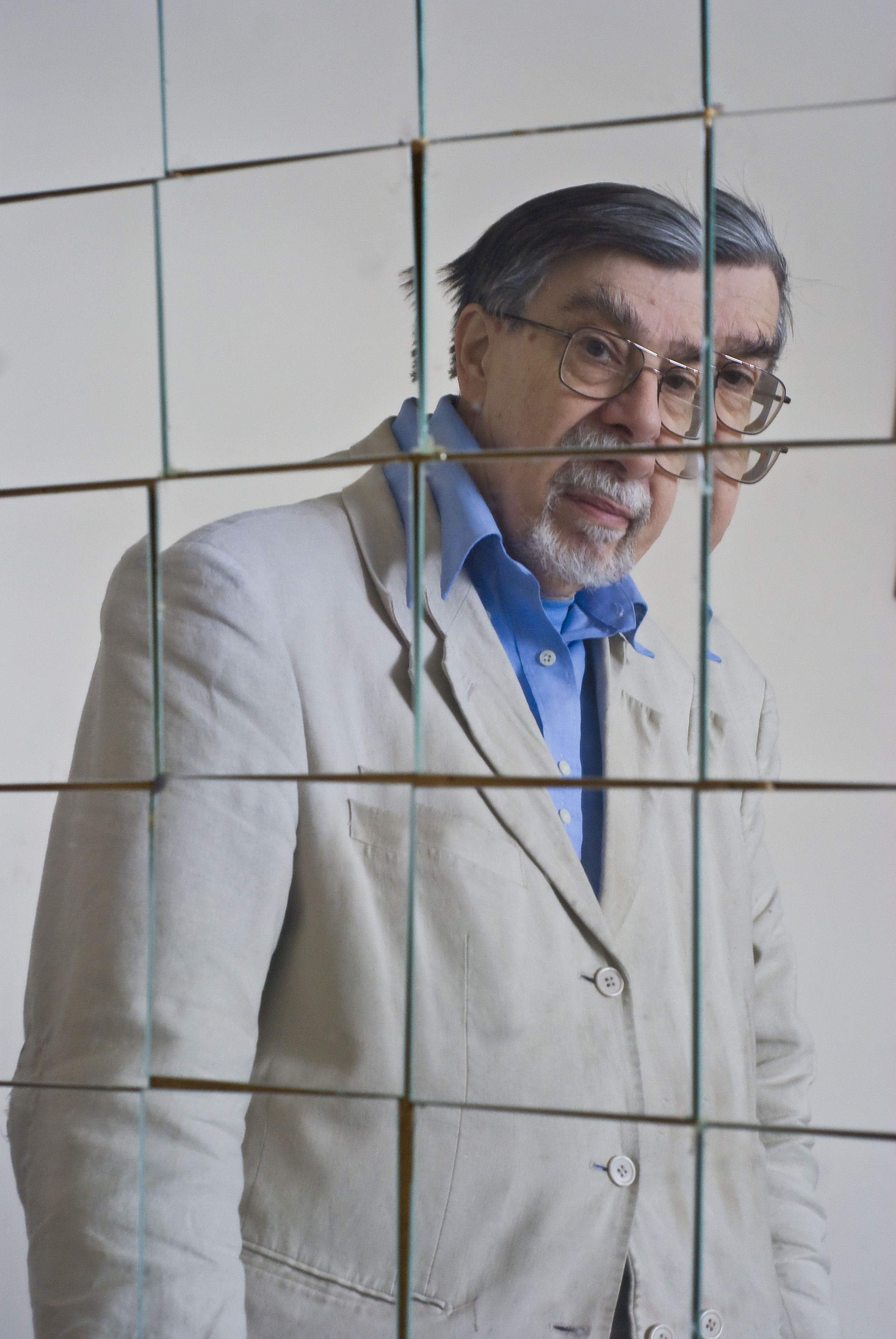 Some promotional photos for Adrin's documentary Perpetual Motion , distributed by Galloping Films . I've also written a blog post about these.